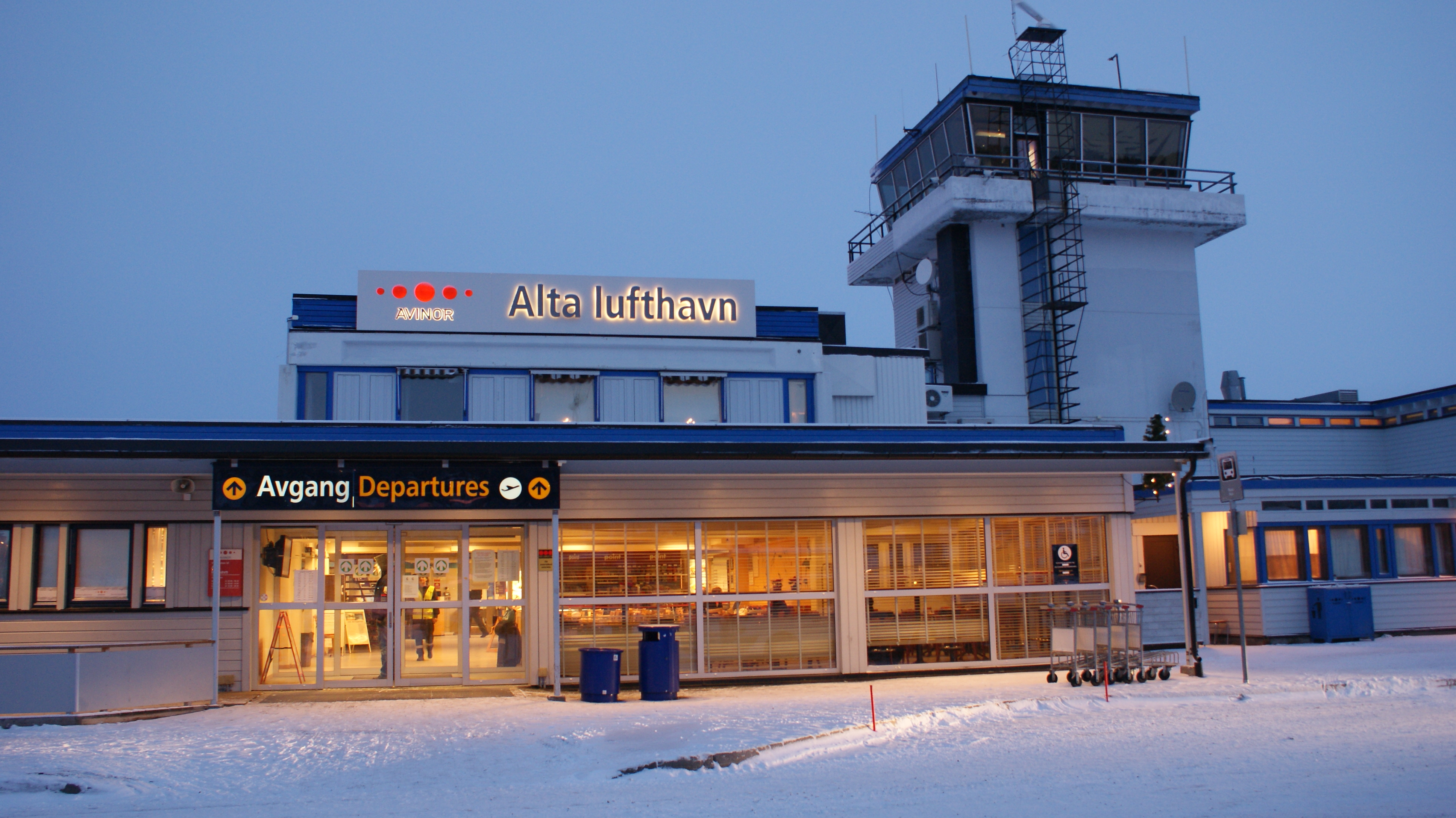 Alta Airport, Finnmark, Norway. Old terminal (replaced in the summer of 2009)